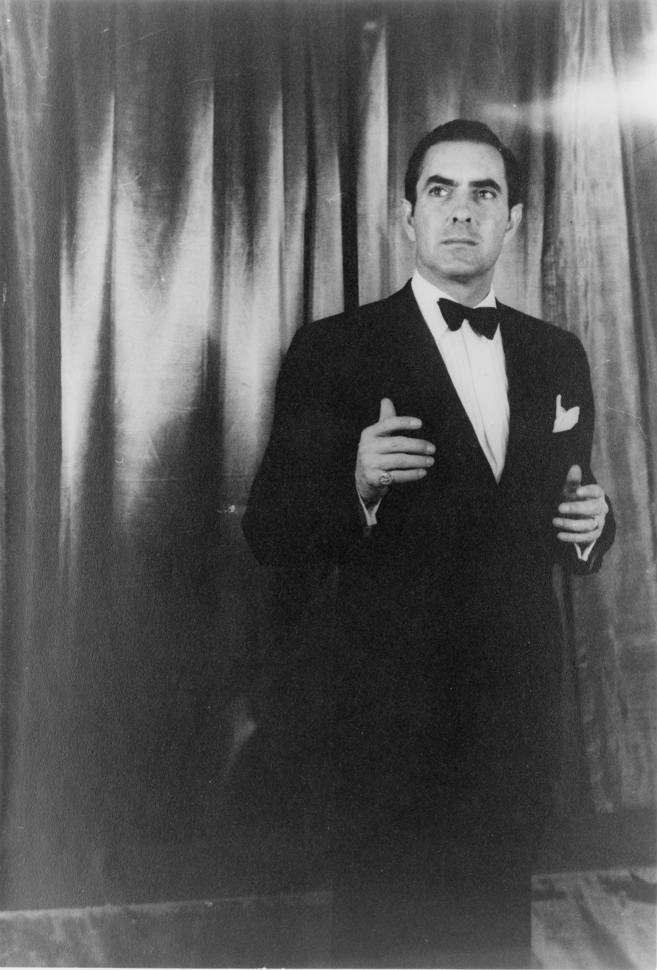 Portrait of Tyrone Power, in "John Brown's body" (1953 March 3)